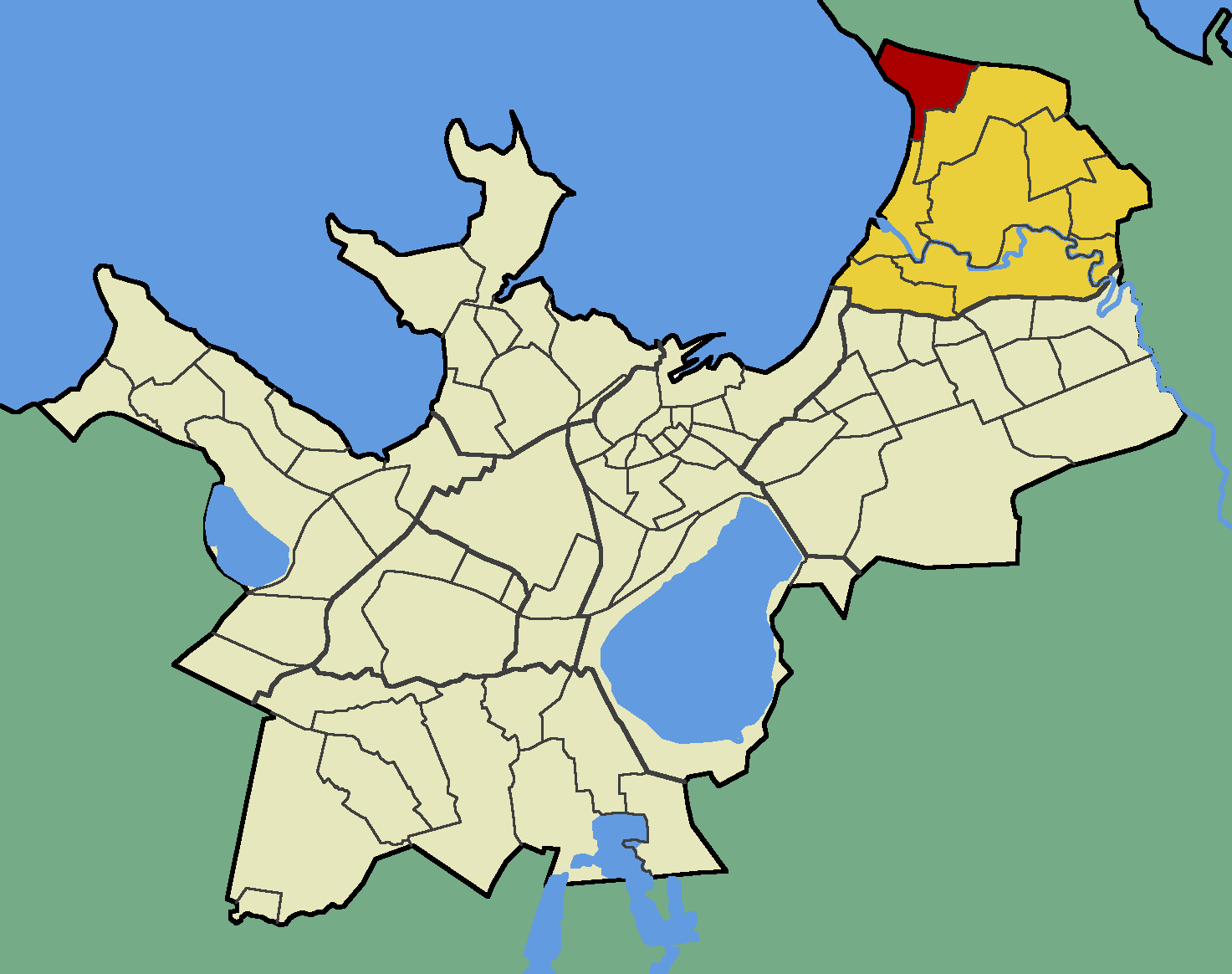 Map of Tallinn (Estonia) with borders of the quarters, Pirita district and Merivälja quarter emphasised